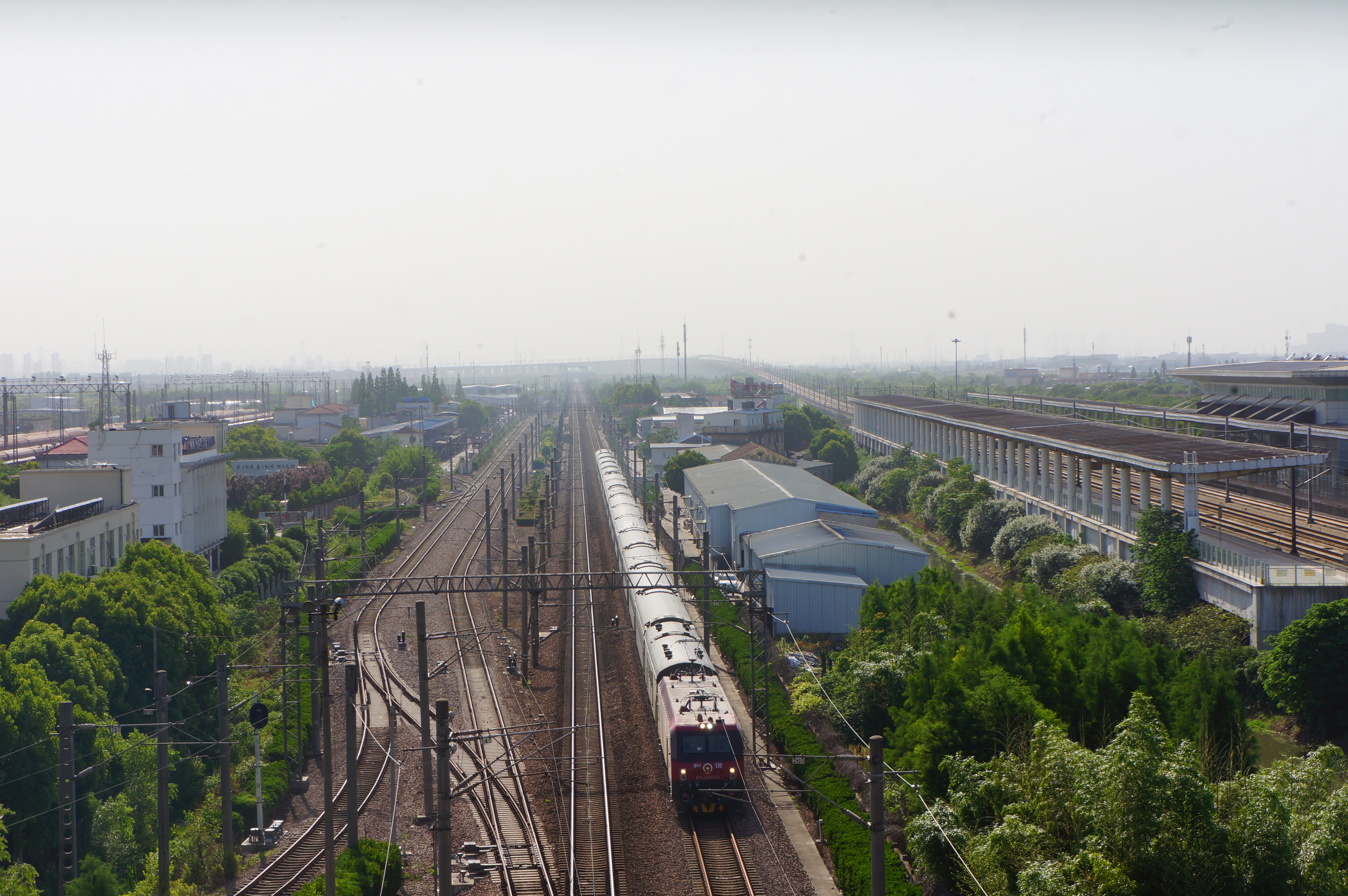 201805 HXD3D-0231 hauls K187 from Shenyangbei passes Nanxiang-Passazhirskiy